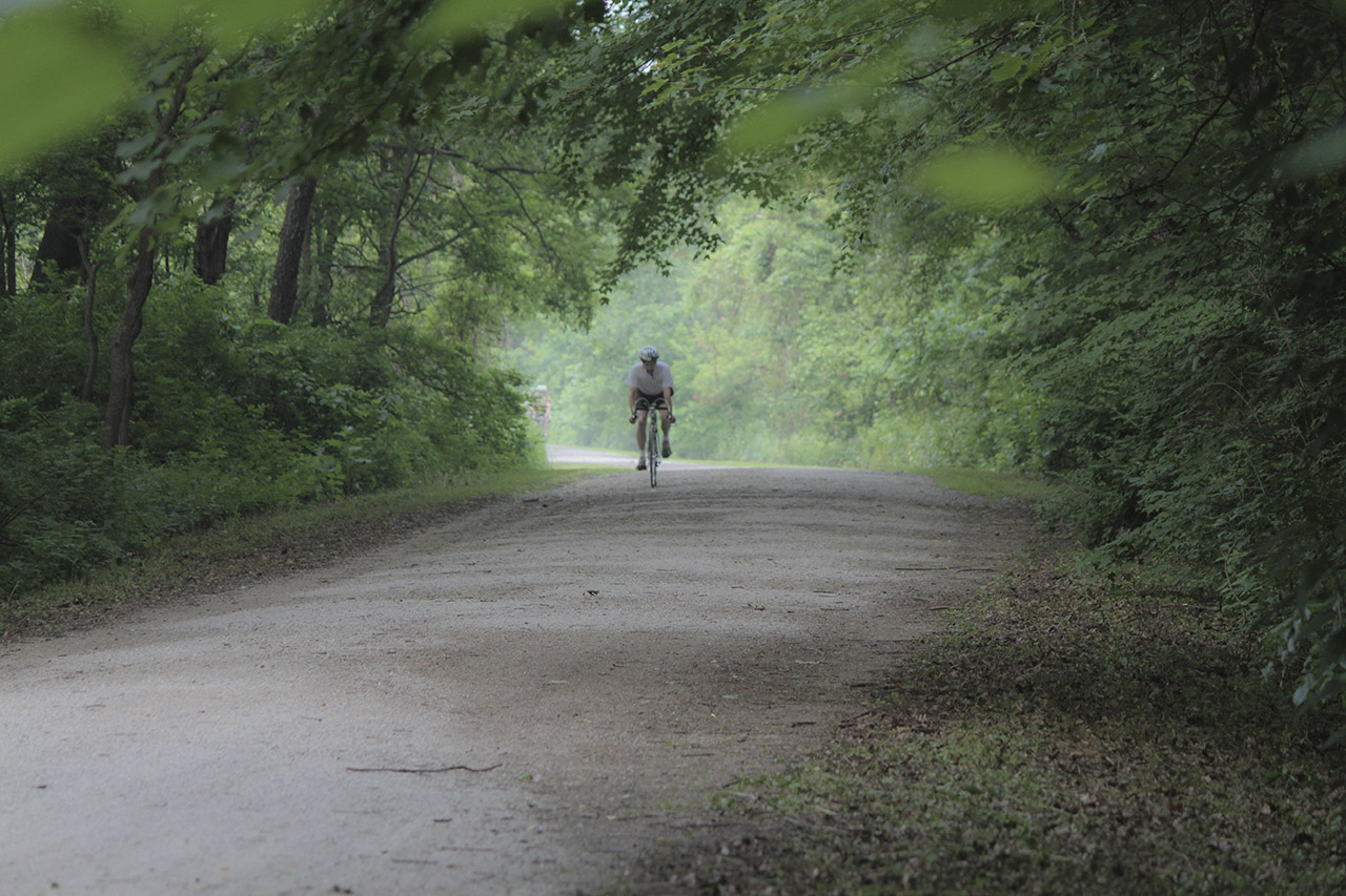 A picture of the Pumpkinvine Nature Trail just outside of Goshen, Indiana